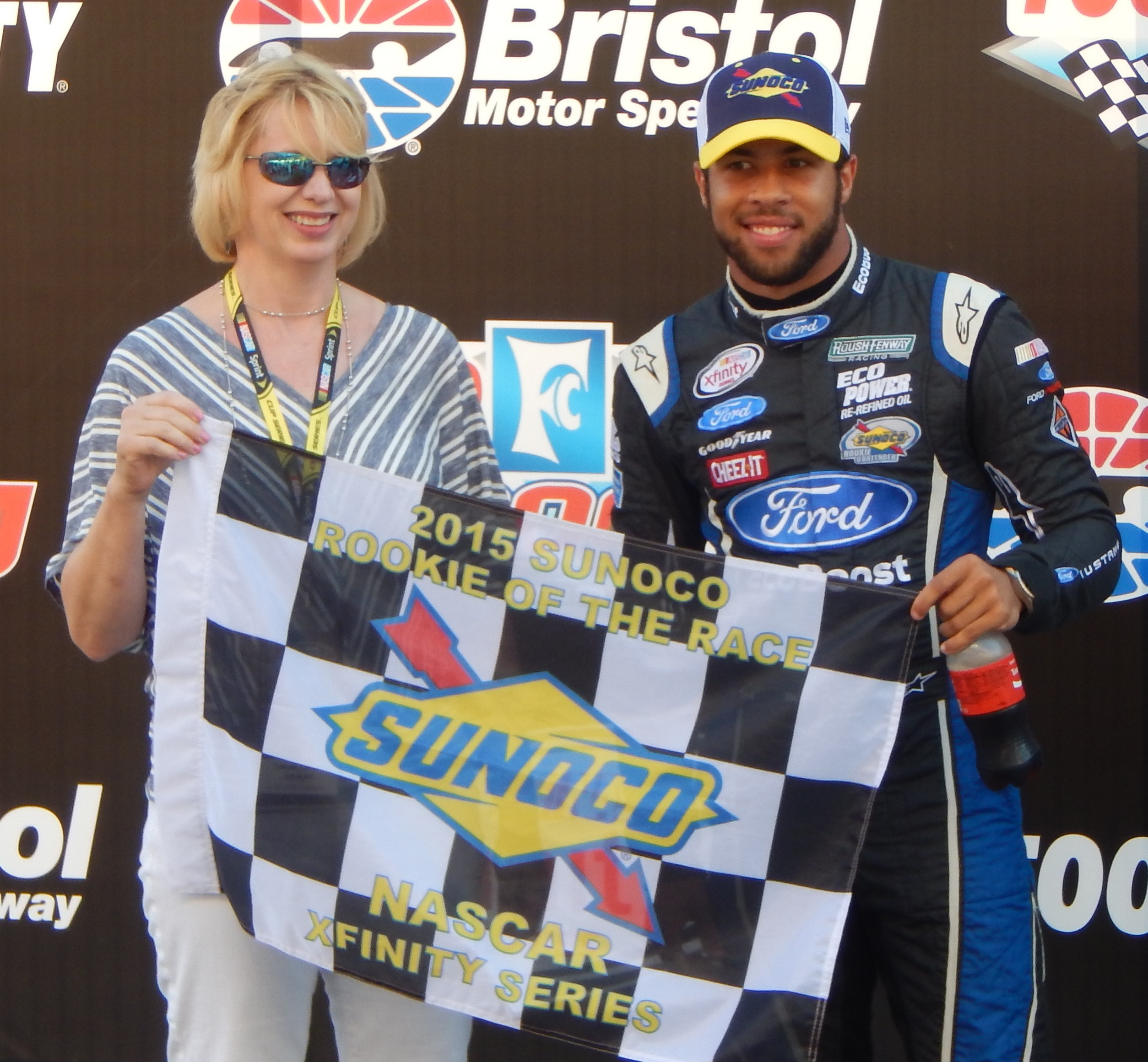 Bubba Wallace being introduced at Bristol Motor Speedway for the 2015 Food City 300.